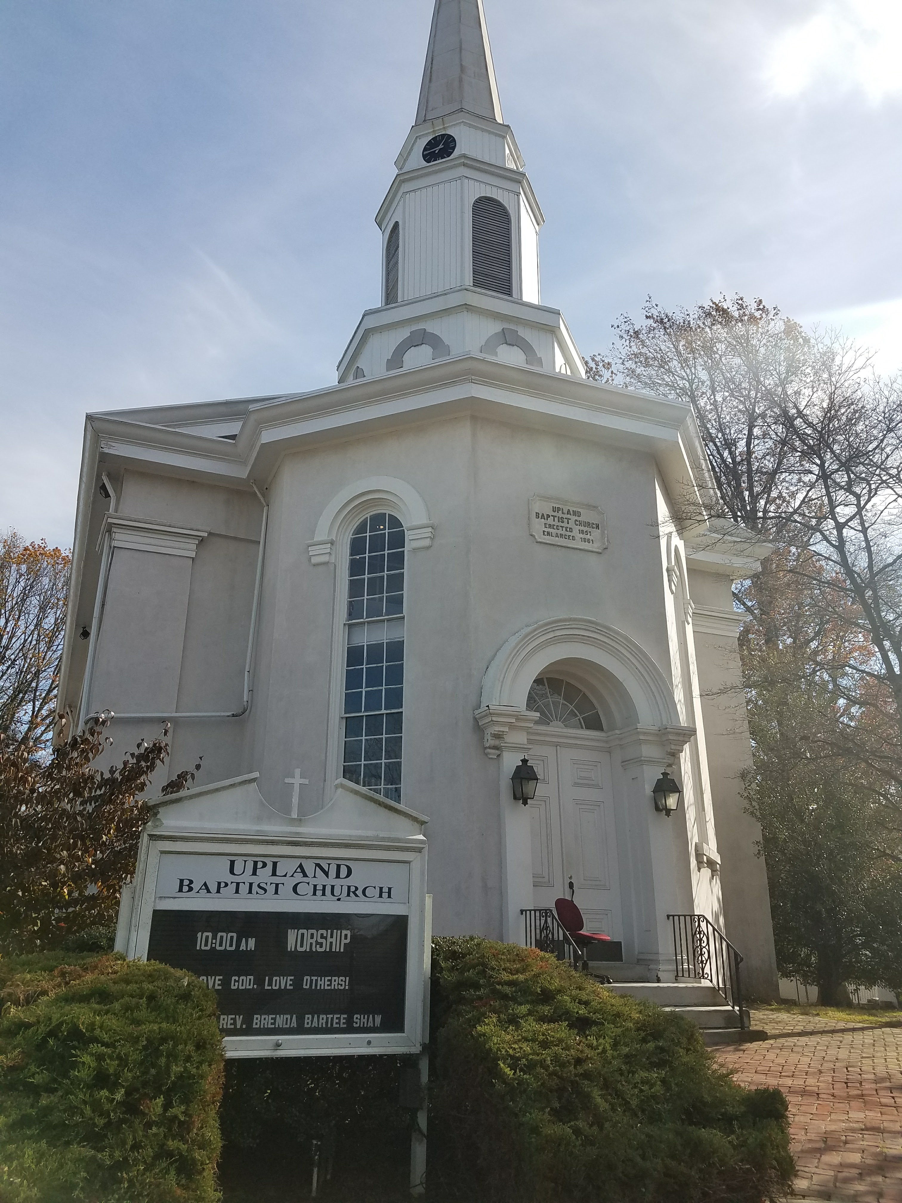 Upland Baptist Church in Upland, PA. Picture taken 11-21-17